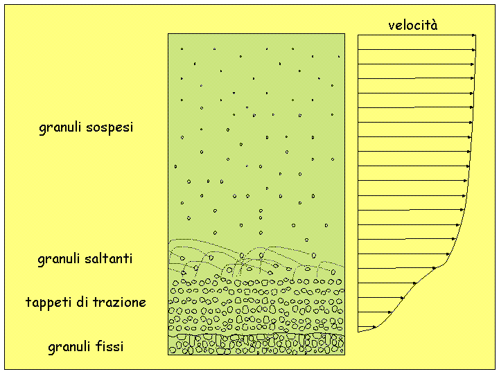 particles transport by a fluvial current; text in Italian.